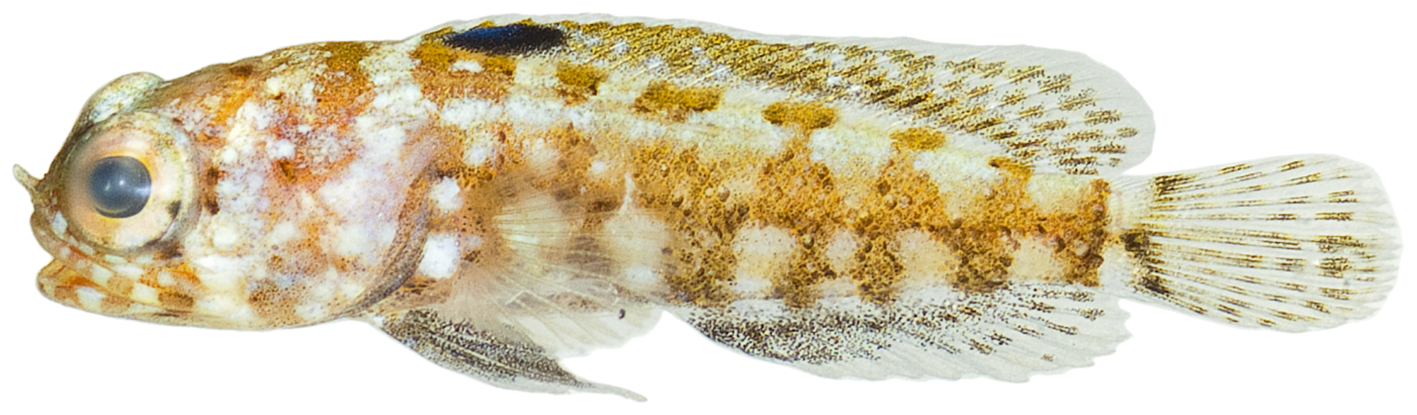 Opistognathus whitehursti (Longley, 1927)—dusky jawfish, juvenile with large black spot in dorsal fin, 22.1 mm SL. Photo by JT Williams.